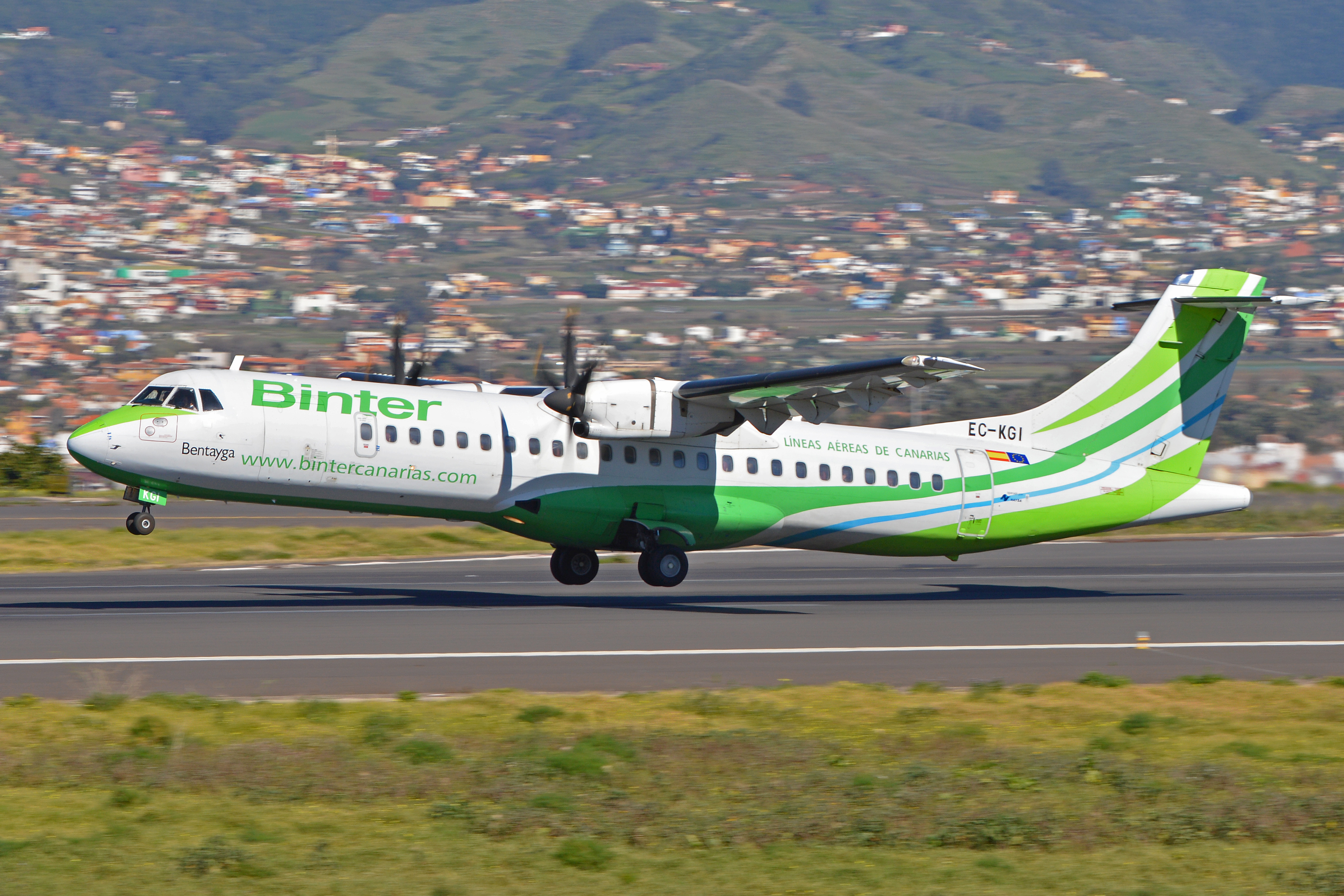 c/n 752. Built 2007. Departing on flight NT663 to Valverde. Tenerife North Airport, Canary Islands. 20-1-2016